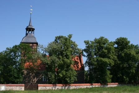 Church in Baumgarten